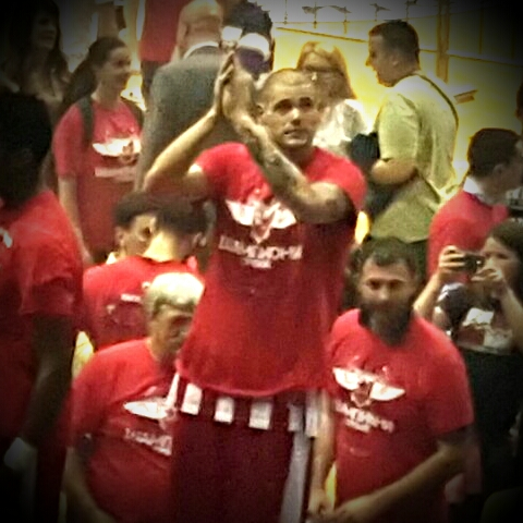 Maik Zirbes champions of Serbia with KK Crvena zevzda